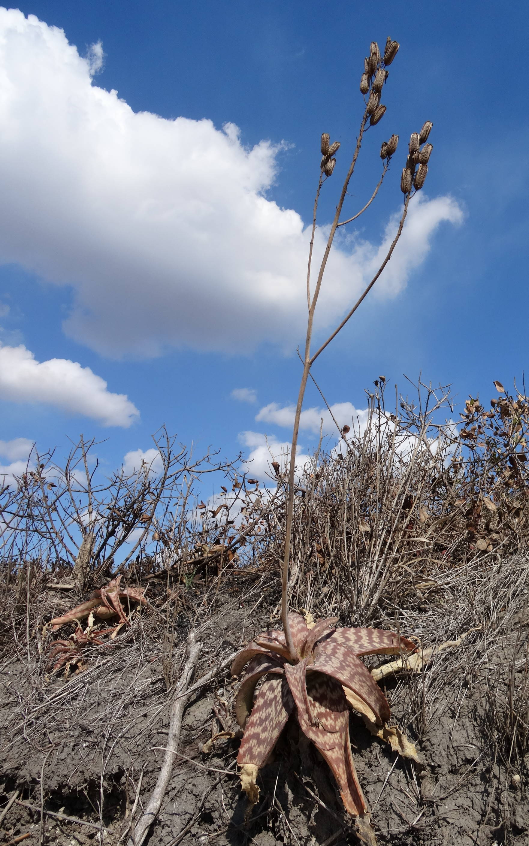 Plants with capsules, south of Catembe, Southern Mozambique.